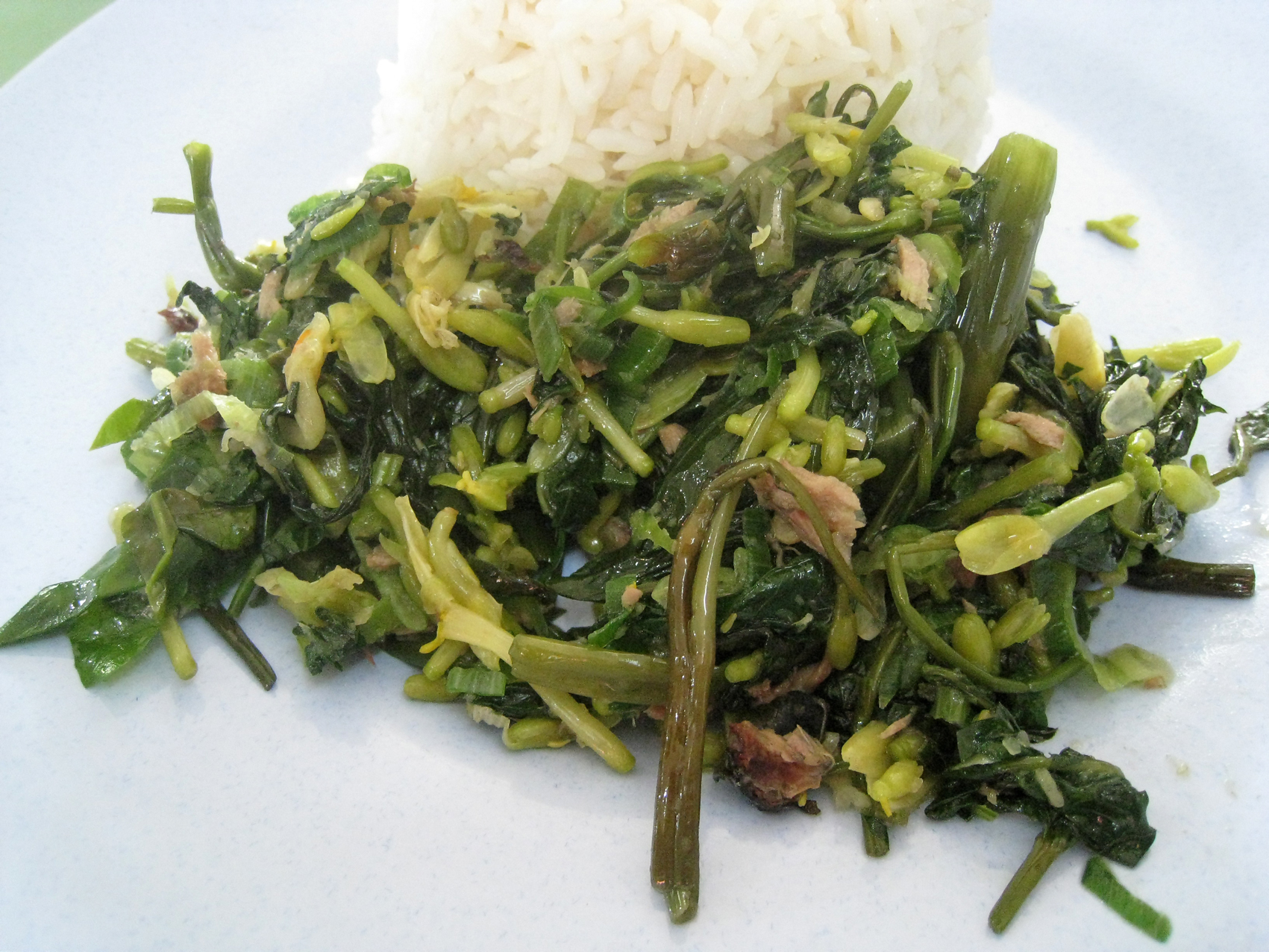 Sayur Bunga Pepaya, a Manado (Minahasan) stirfried vegetable cuisine made of Papaya flower.